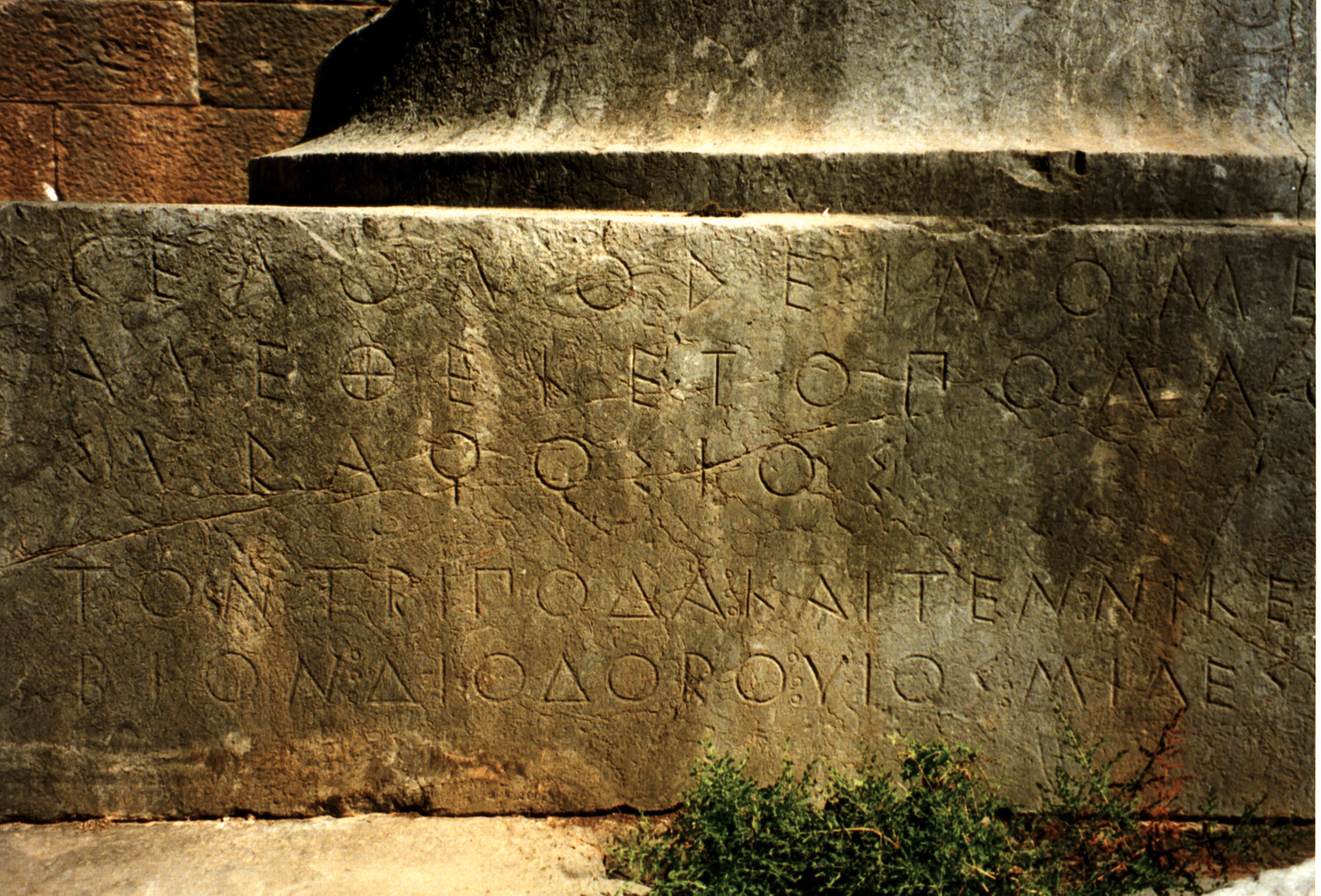 AWIB-ISAW: Delphi (XXV) Detailed view of an inscription on the base of the tripod of Gelon at Delphi. by William III West copyright: William West III (used with permission) photographed place: Delphi Published by the Institute for the Study of the Ancient World as part of the Ancient World Image Bank (AWIB). Further information